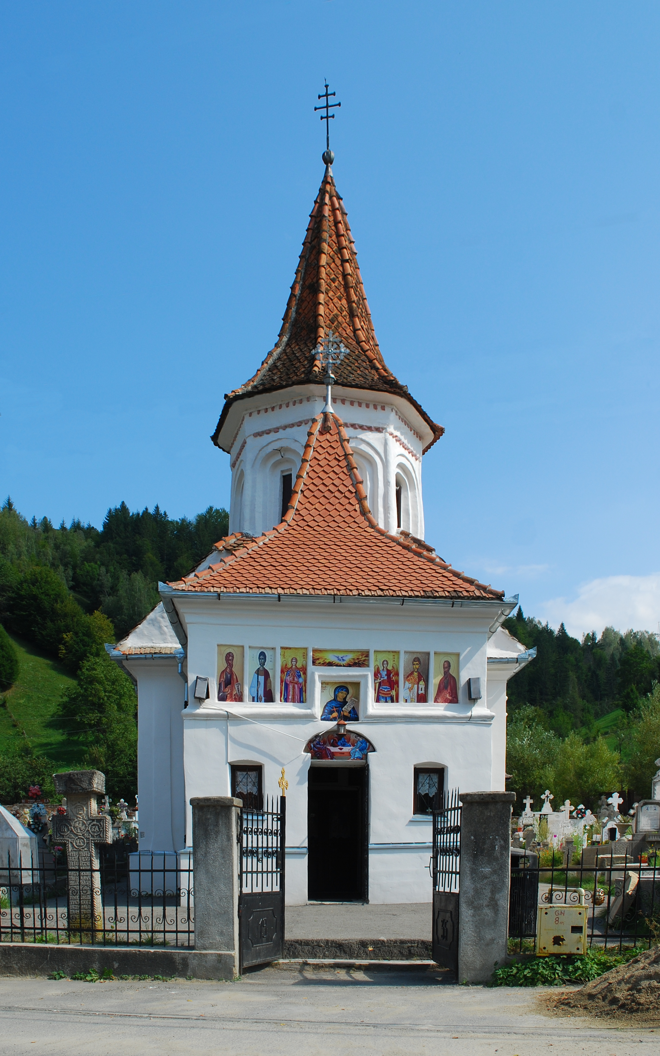 Saint Paraskeva church in Șimon, Bran Commune, Brașov County, RomaniaRomână: Biserica Cuvioasa Paraschiva din satul Șimon, comuna Bran, județul Brașov, România